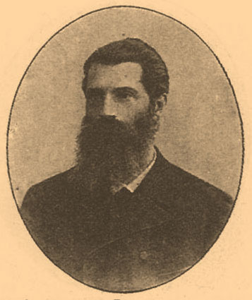 Illustration from Brockhaus and Efron Encyclopedic Dictionary (1890—1907)